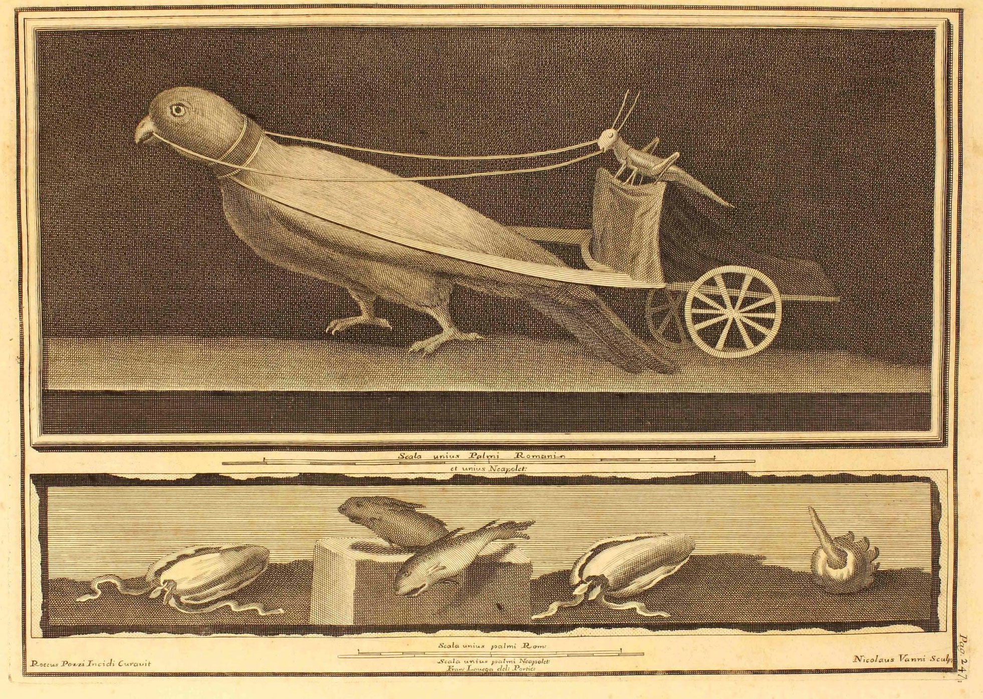 Drawing for the book Le pitture antiche d'Ercolano e contorni incise con qualche spiegazione. Tomo primo